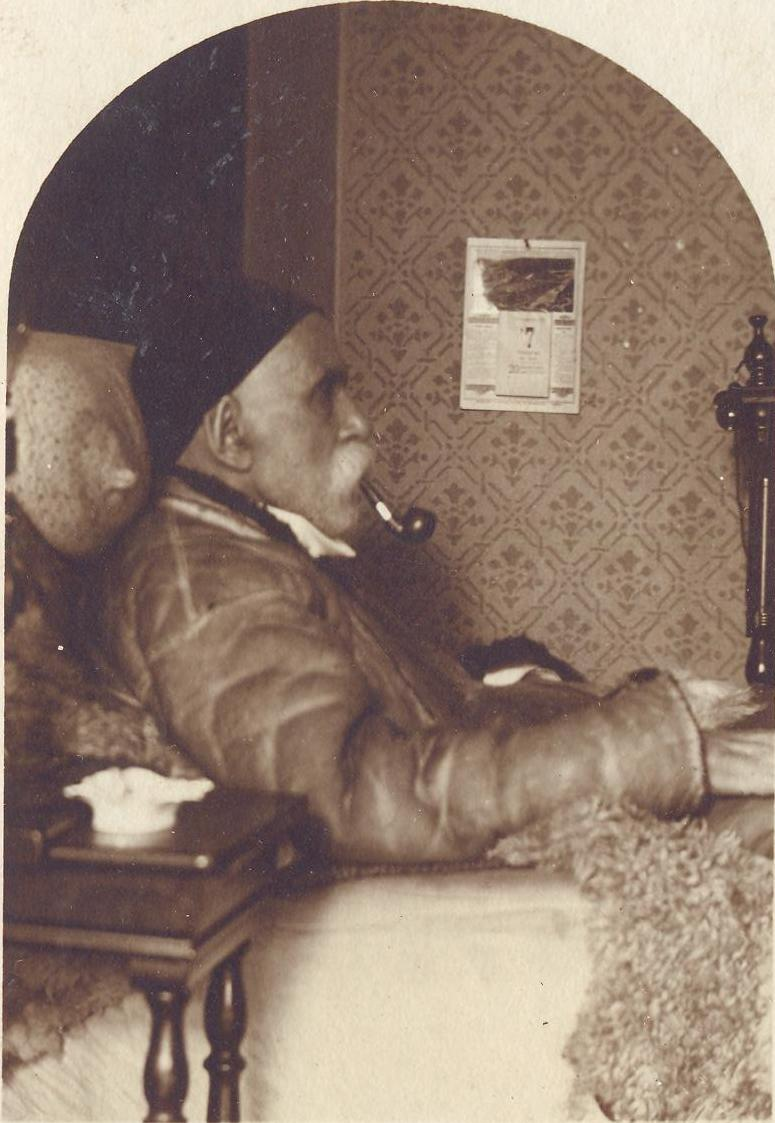 Dragan Tsankov, 1911.